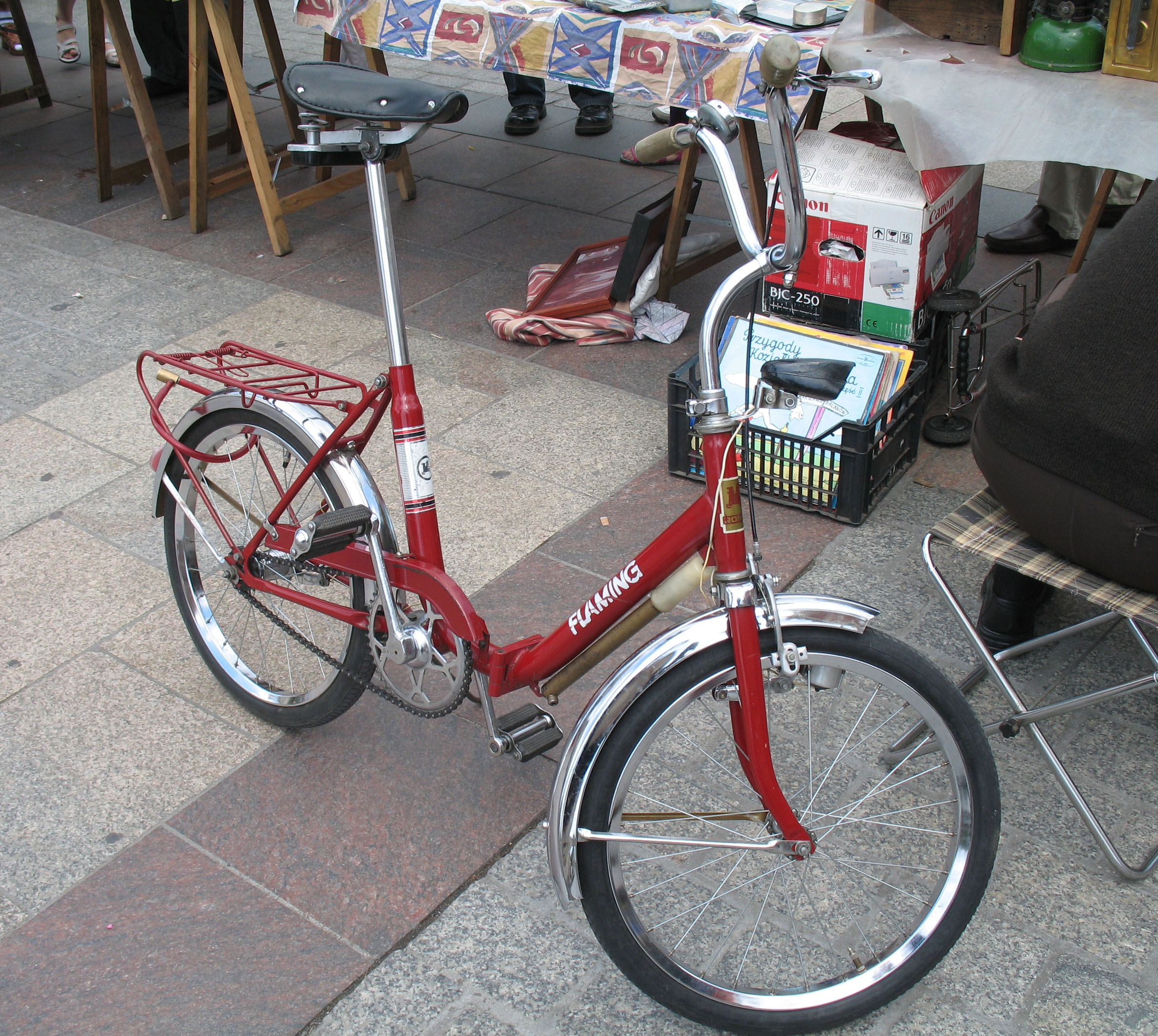 Romet Flaming bicycle in Kraków, Poland.